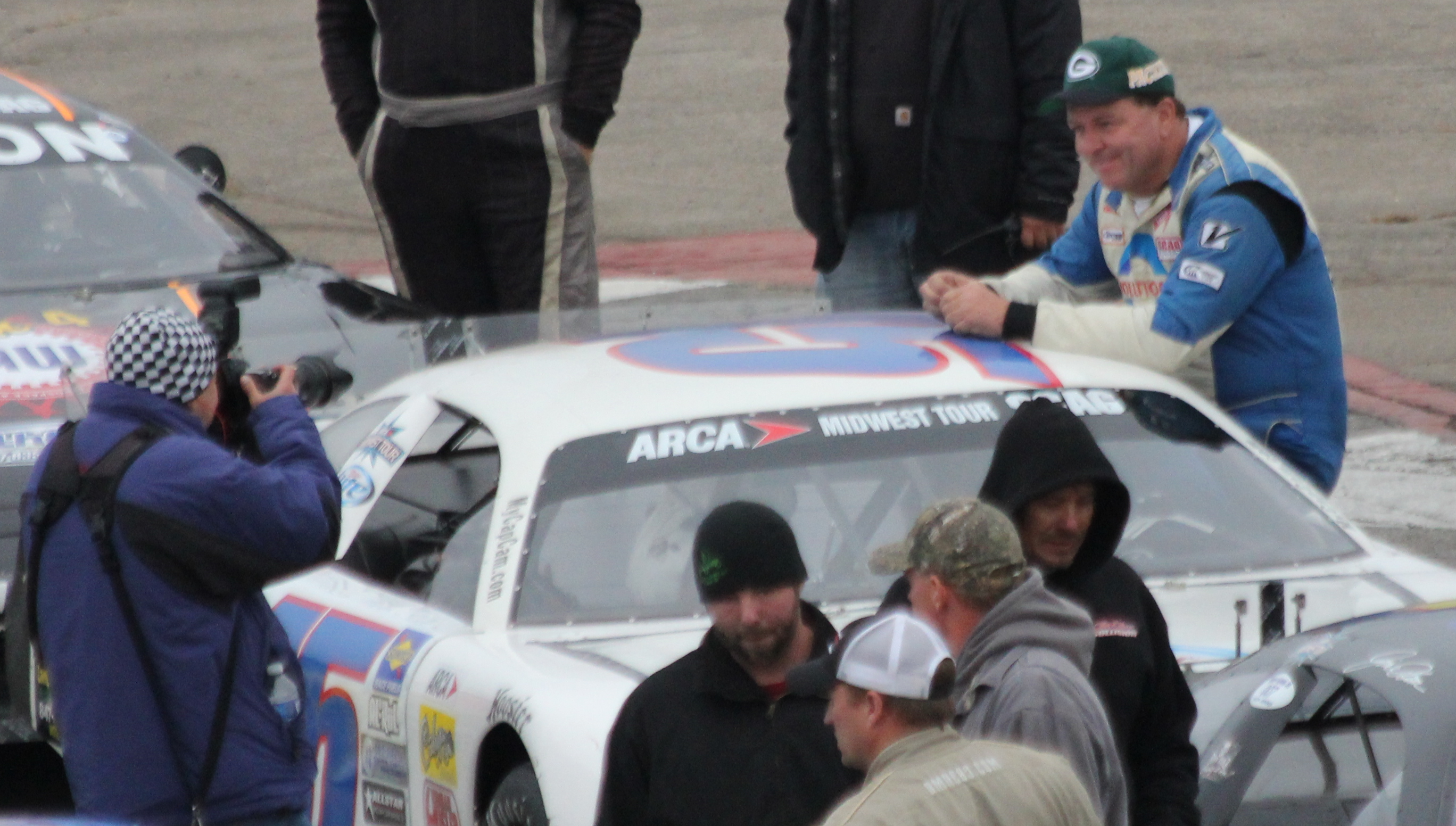 former NASCAR driver Rich Bickle poses for a photographer wearing his Green Bay Packers hat at the 2015 National Short Track Championship at Rockford Speedway. He is clearly out of the Packer's region of influence and in the area of Chicago Bears fans.